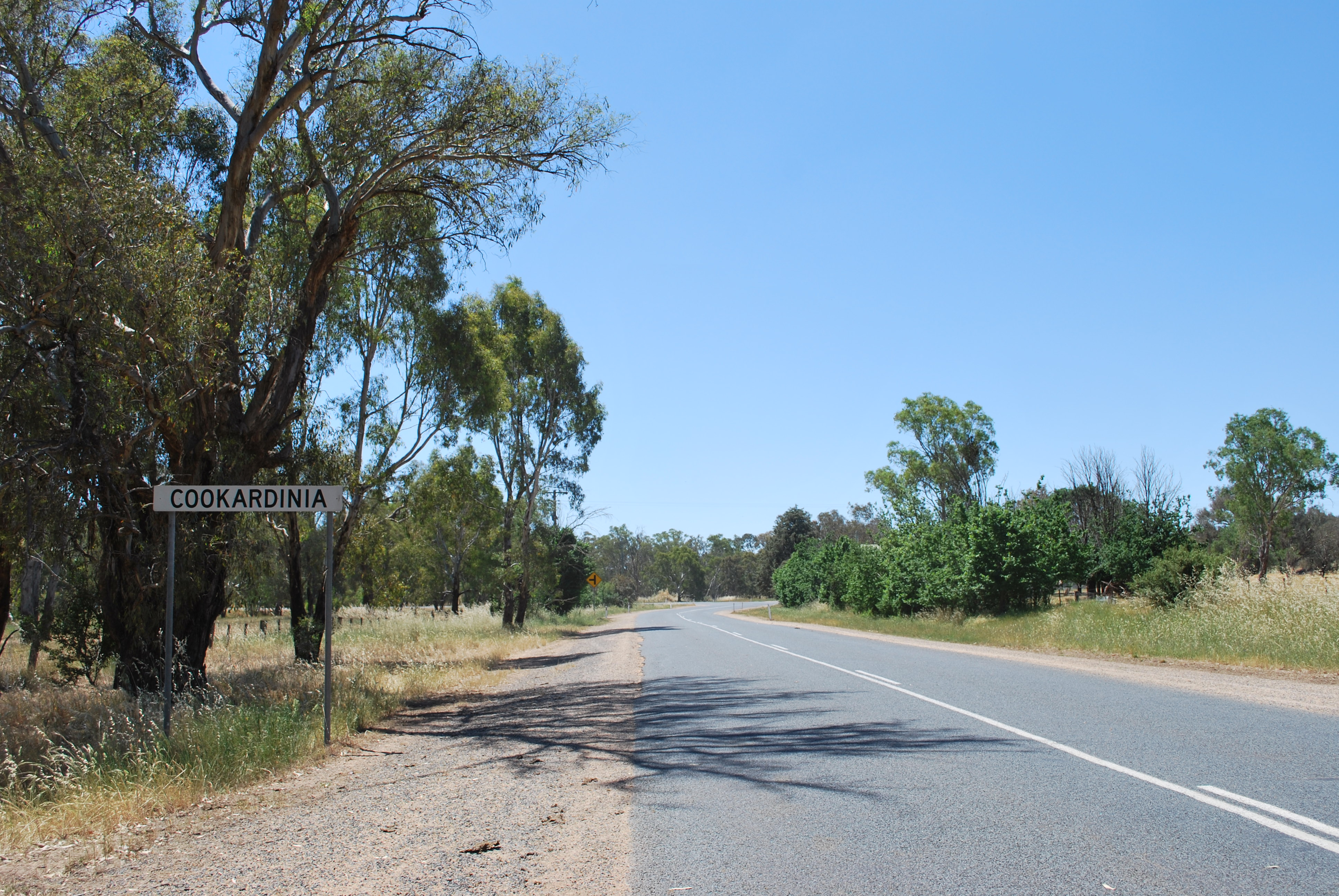 Town entry sign at Cookardinia, New South Wales